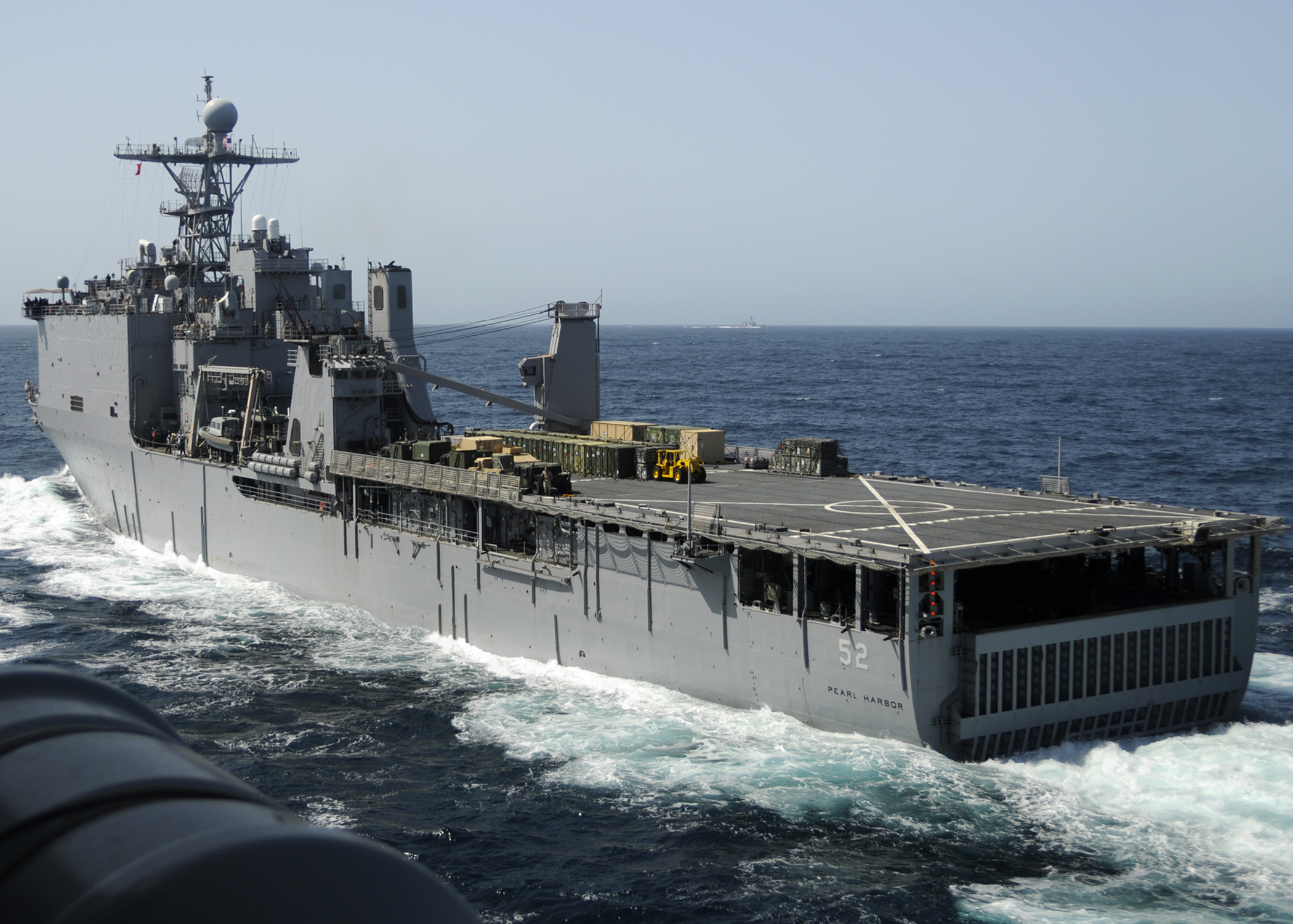 PACIFIC OCEAN (March 26, 2010) The amphibious dock landing ship USS Pearl Harbor (LSD 52) is underway off the coast of Southern California conducting composite training unit exercise (COMPTUEX) in preparation for their upcoming 2010 deployment. (U.S. Navy photo by Mass Communication Specialist 3rd Class Foster Bamford/Released)